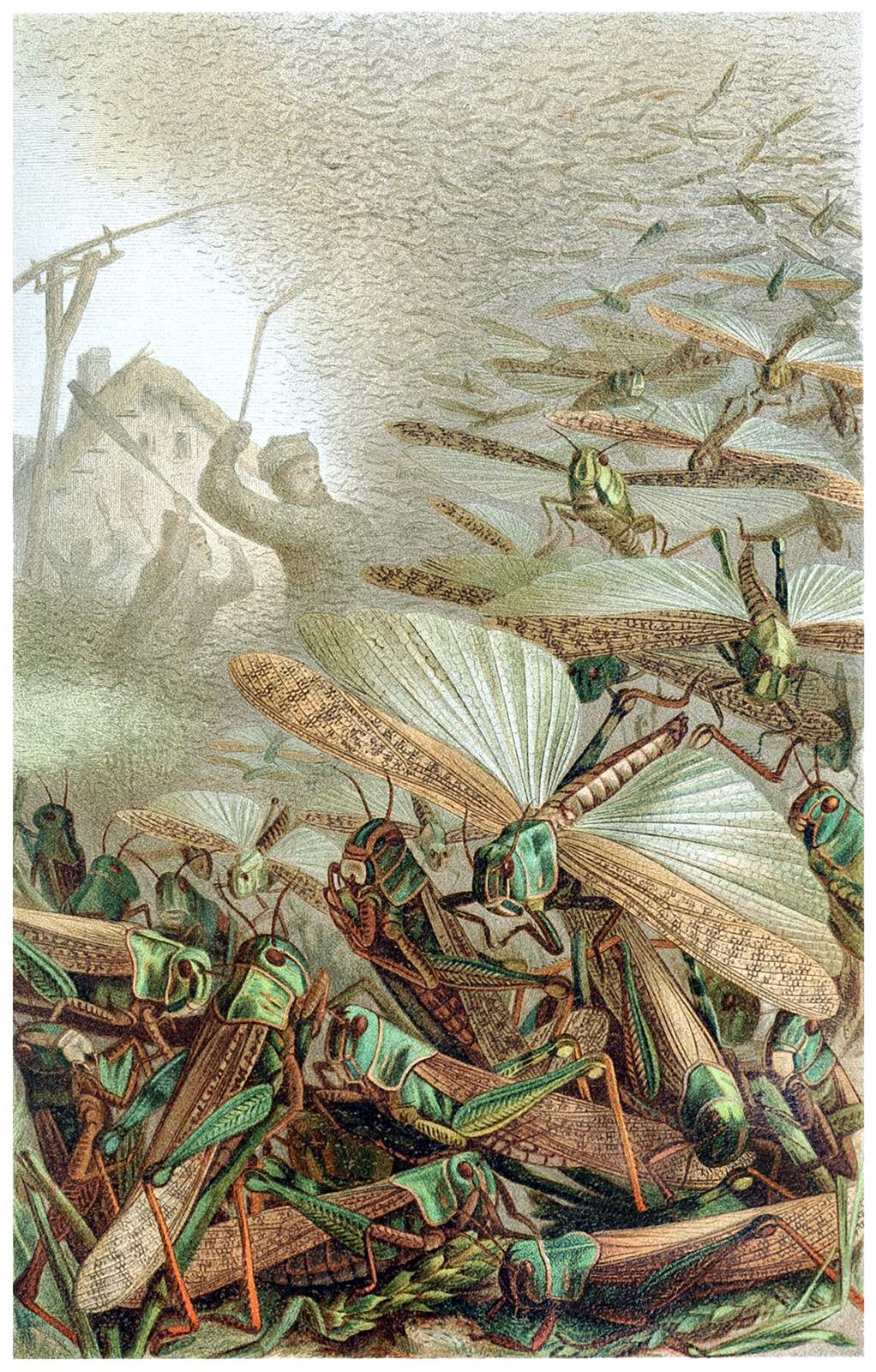 'A swarm of locusts' by Emil Schmidt